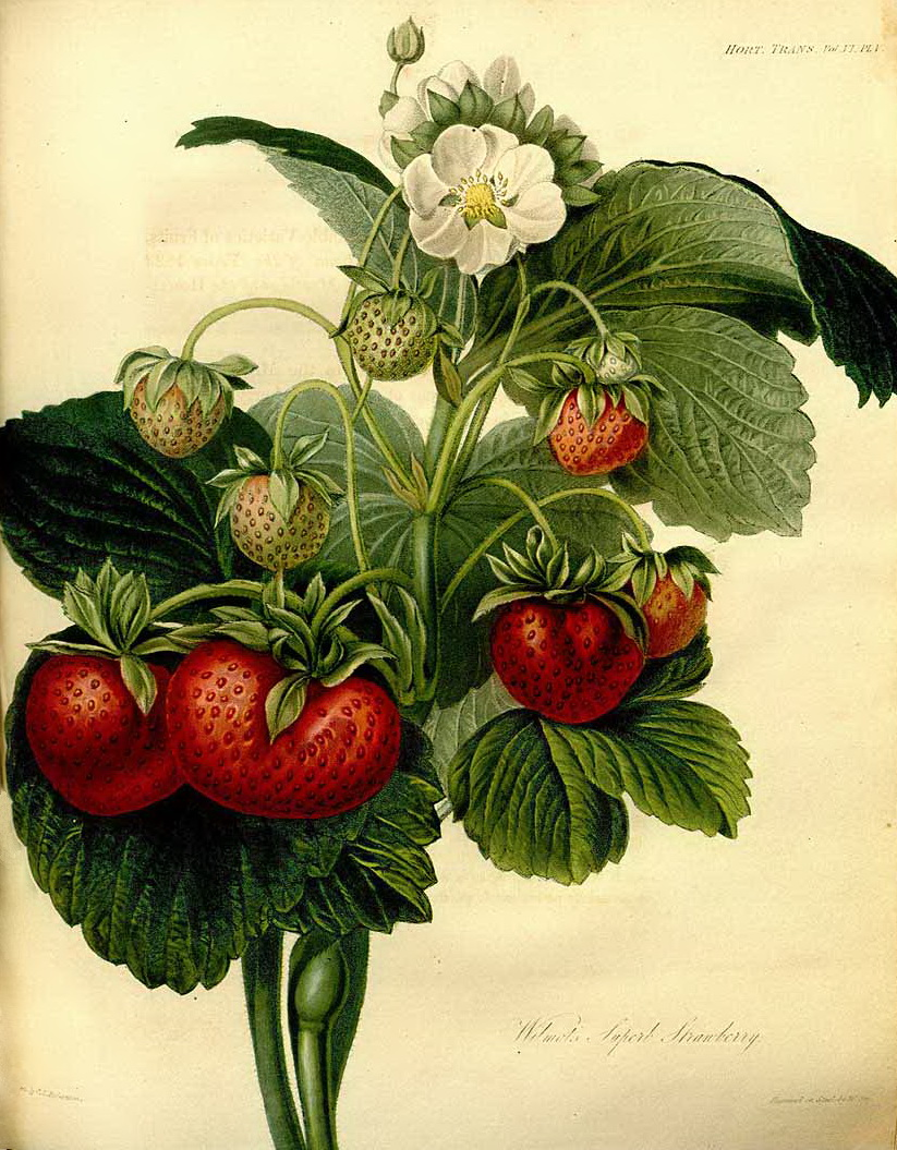 Fragaria vesca L. Charles John Robertson (1798-1830)